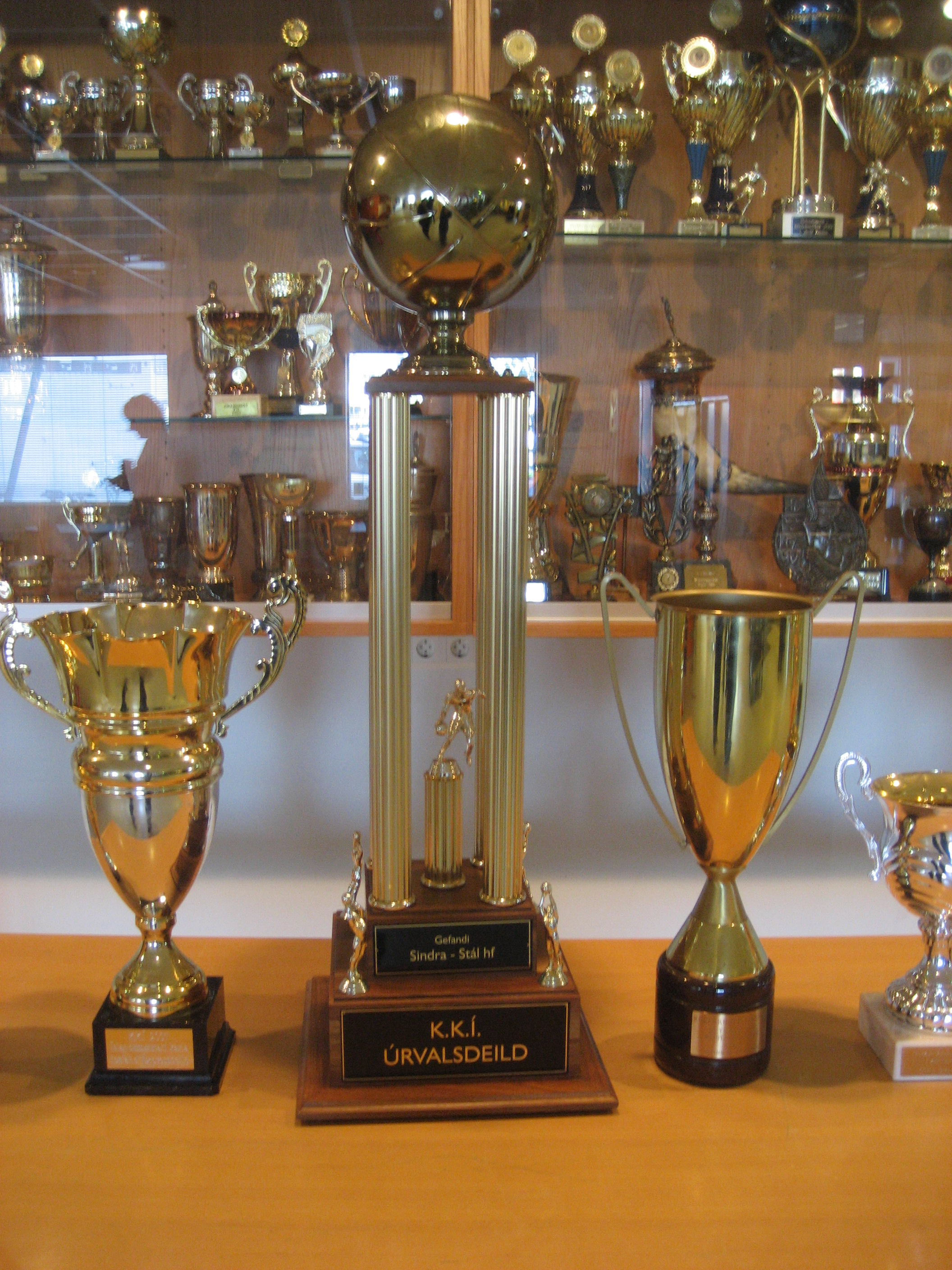 The Icelandic basketball trophy